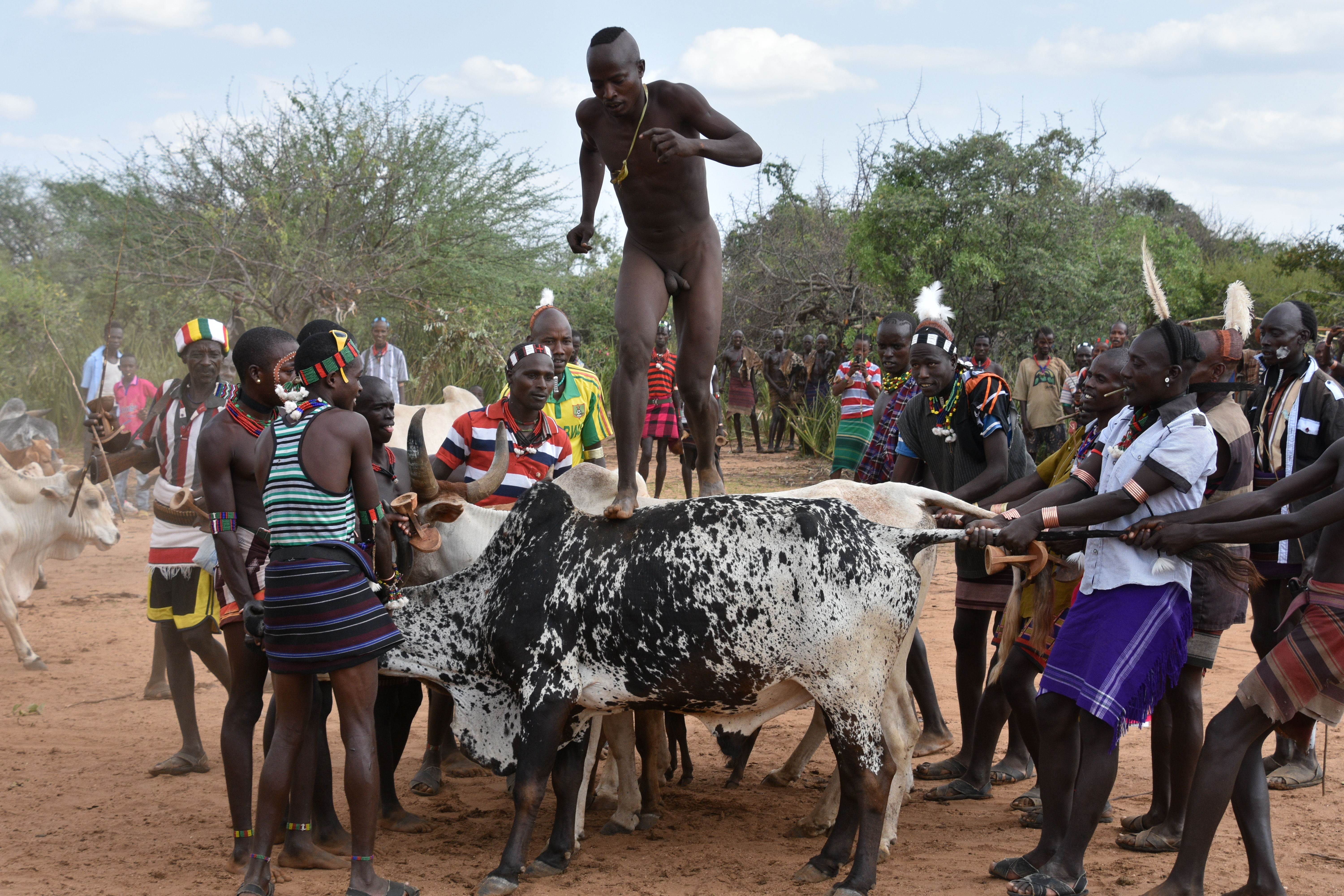 The Hamar (also spelled Hamer) are an Omotic community inhabiting southwestern Ethiopia. The Hamar are known for their unique custom of "bull jumping," which initiates a boy into manhood. First, female relatives dance and invite whipping from men who have recently been initiated; this shows their support of the initiate, and their scars give them a right to demand his help in time of need. The boy must run back and forth twice across the backs of a row of bulls or castrated steers, and is ridiculed if he fails.